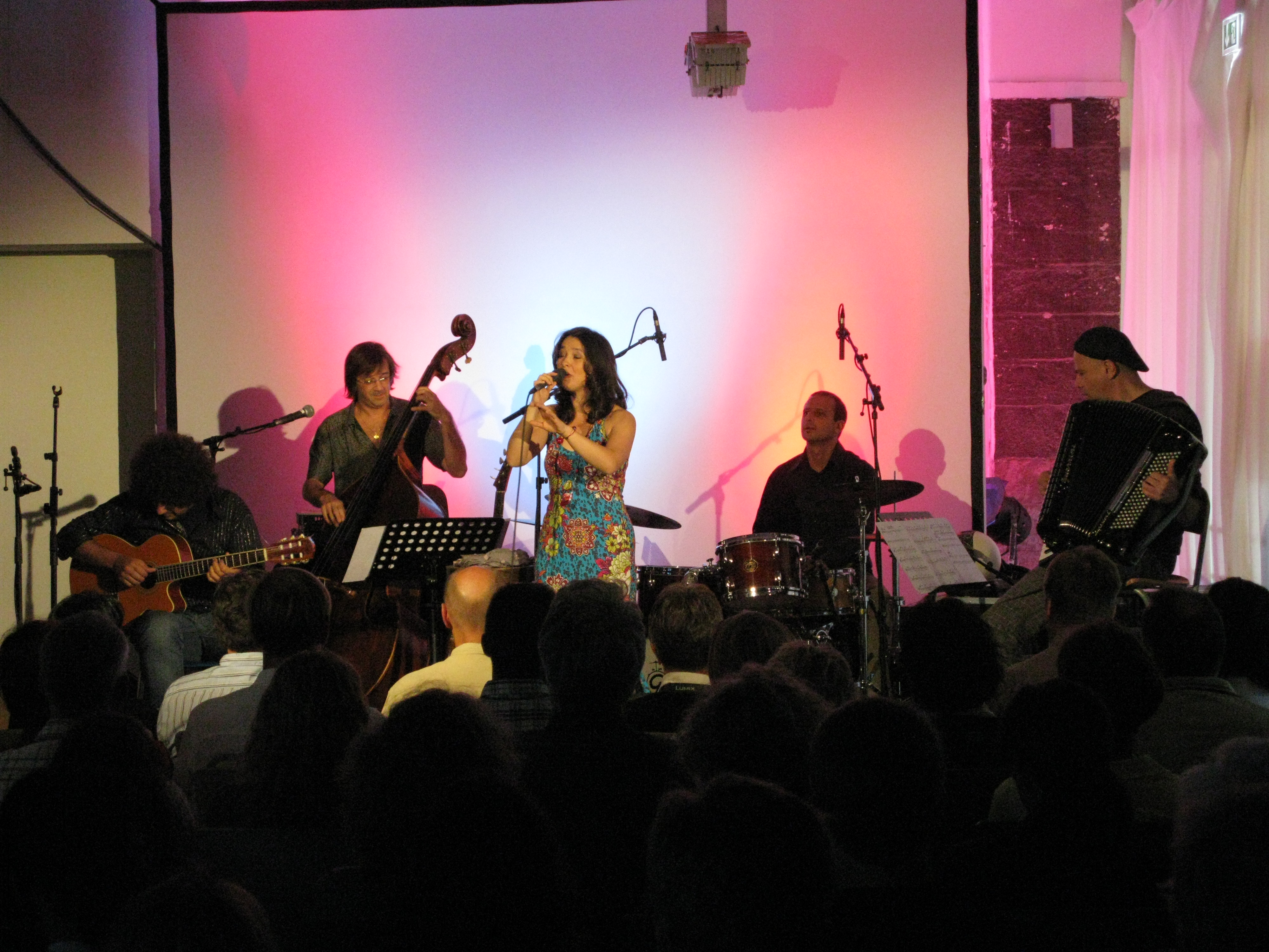 Céline Rudolph and band @ Tollhaus, Karlsruhe, 2009-05-29